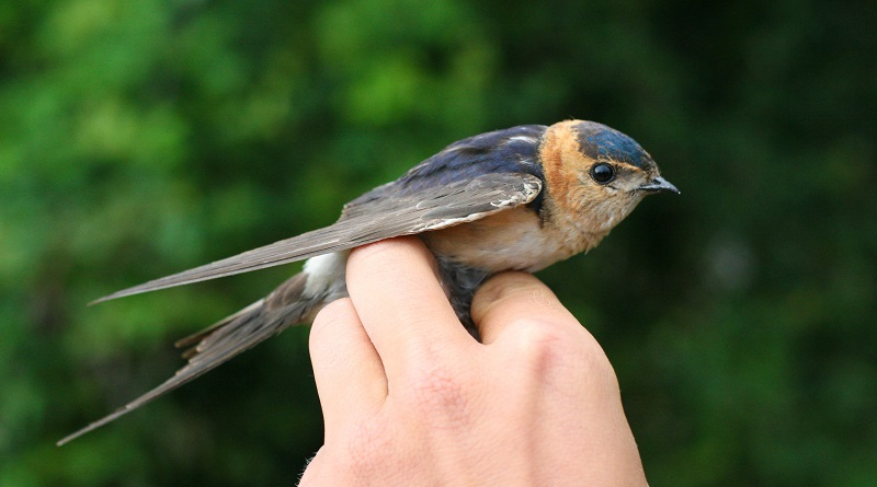 Cecropis daurica (Hirundinidae) (Red-rumped Swallow) - (first calendar year), Chorokhi Delta - Southern Ponds & Wetlands, Georgia